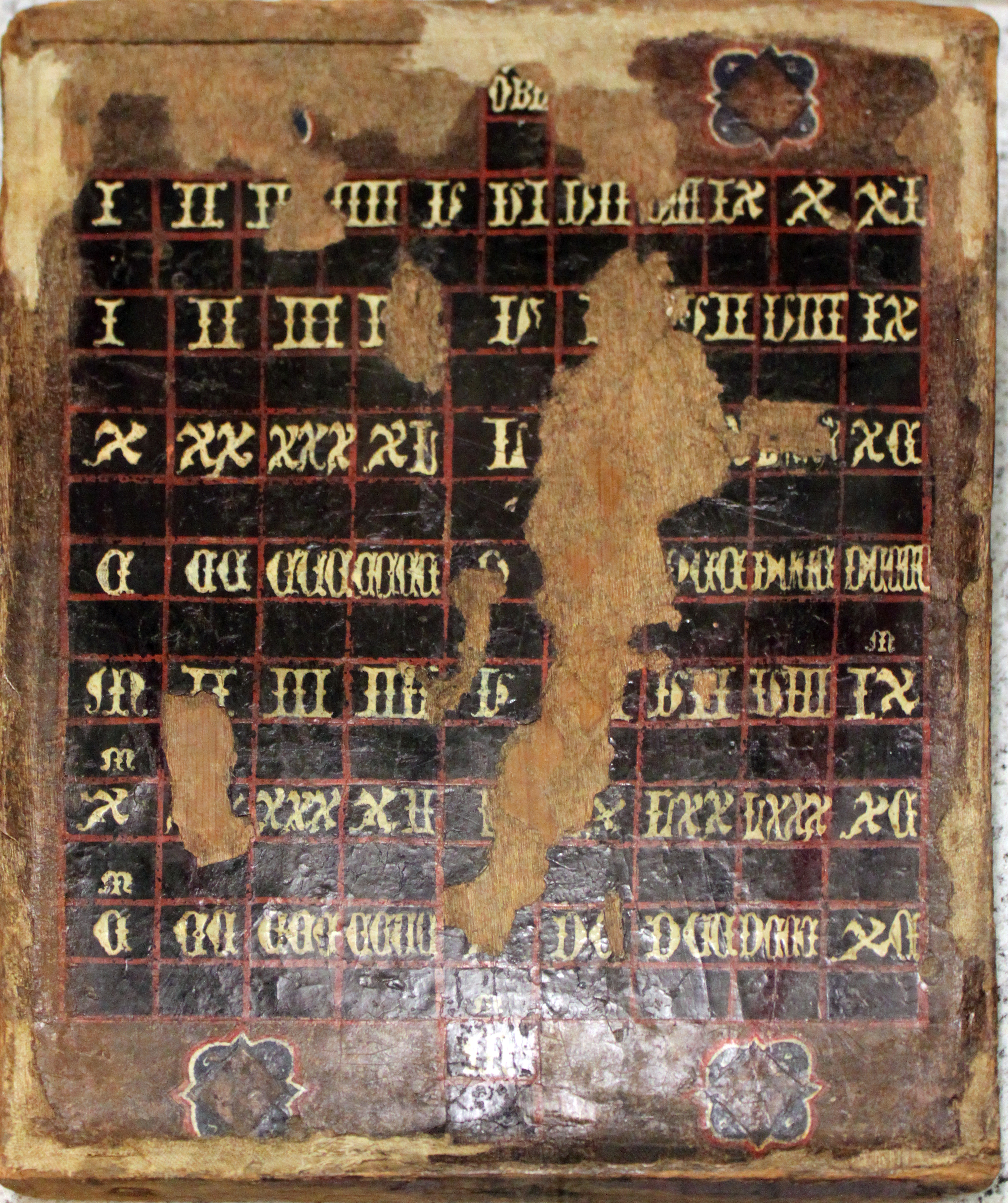 Abacus, around 1340; Mediaeval arithmetics advanced calculation with columns and tokens. The abacus is an example of the teachings of Gerbert d'Aurillac (Pope Silvester II, ca. 950-1003) and Bernellinus of Paris (d. 1003).